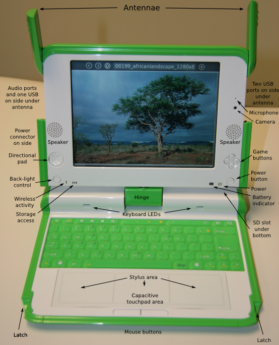 OLPC - Production Prototype - Functional Survey (Derivative work)